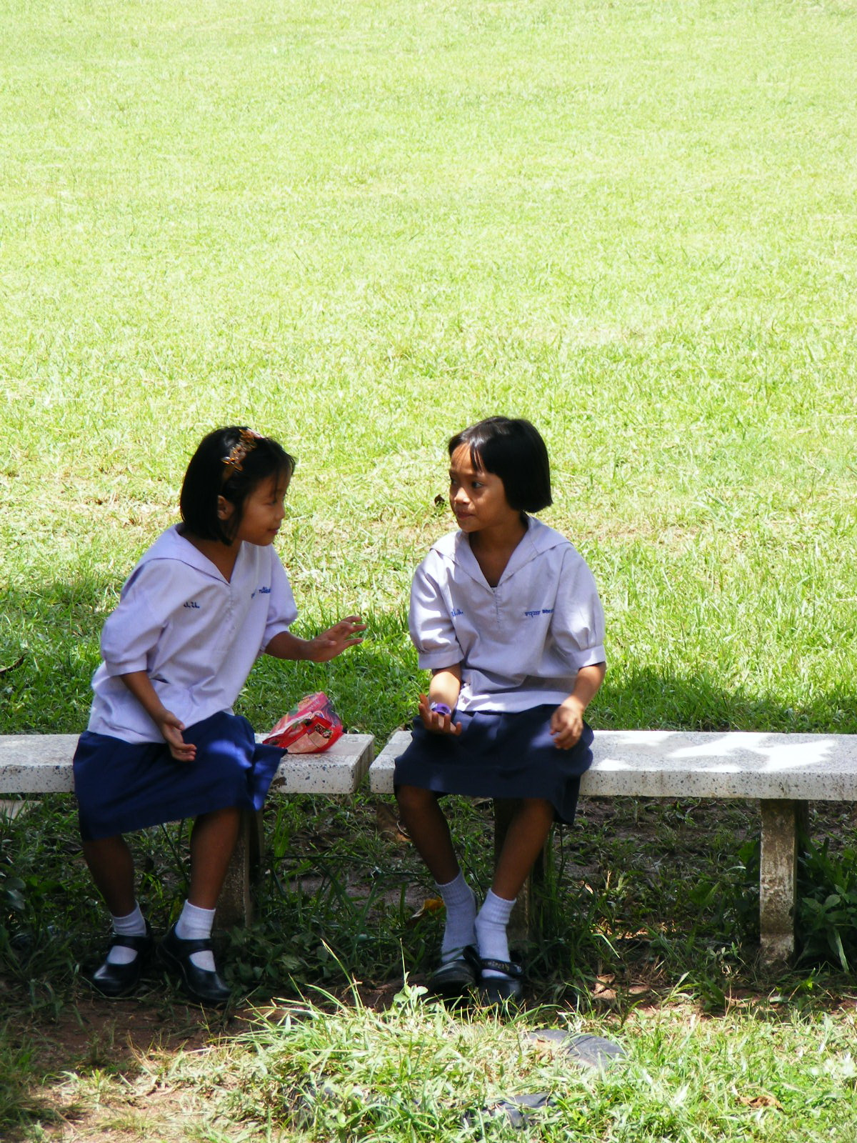 student in Pa Khanun Charoen Witthaya School in Ban Pa Kanun, Khung Taphao subdistrict, Mueang Uttaradit, Uttaradit Province, Thailand.